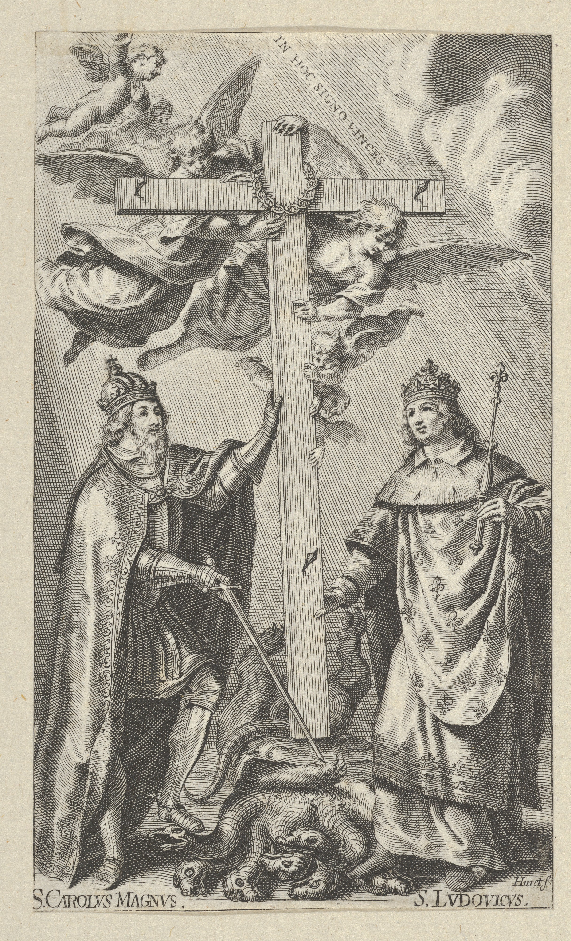 Print; Prints